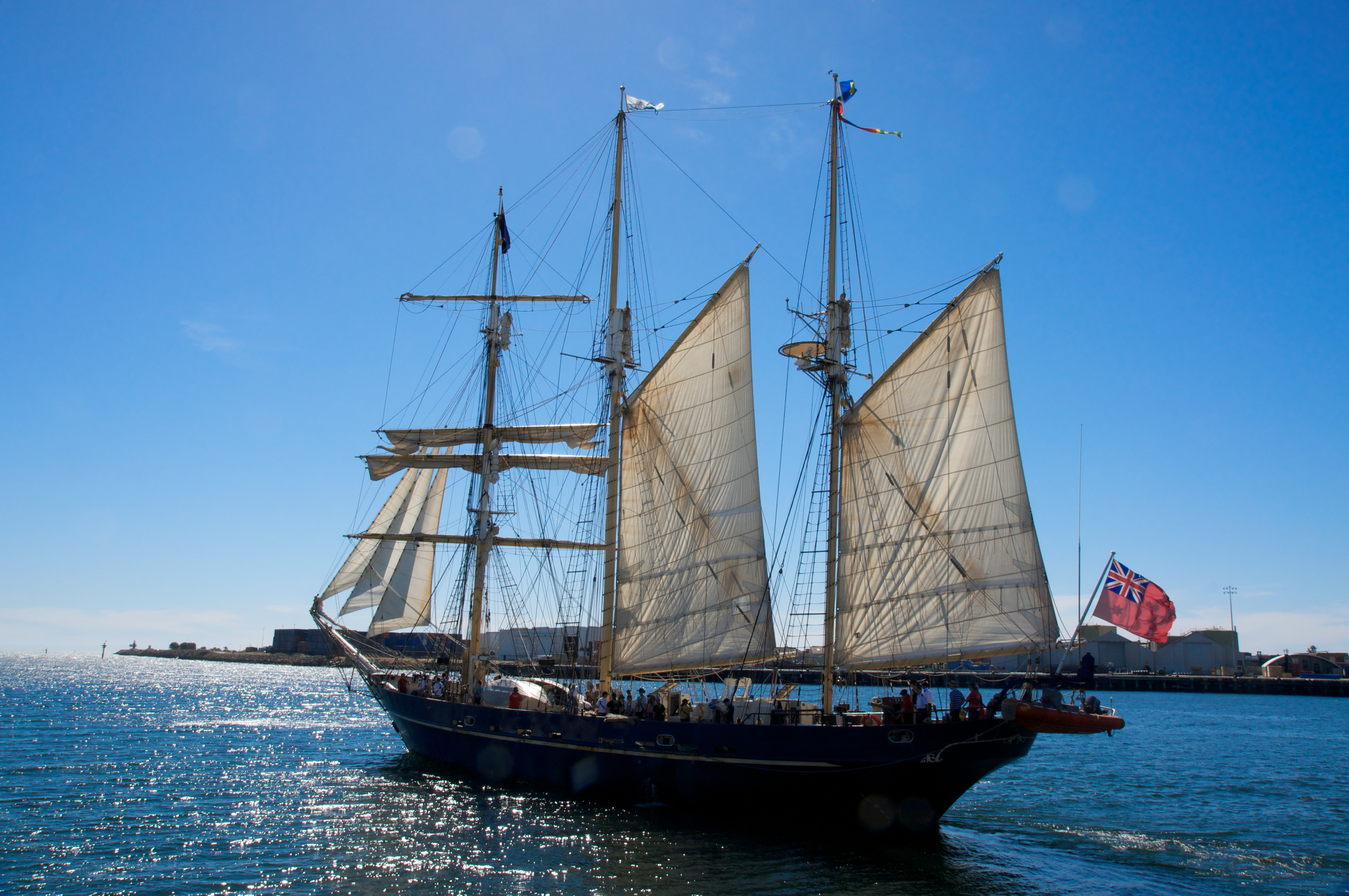 STS Leeuwin II